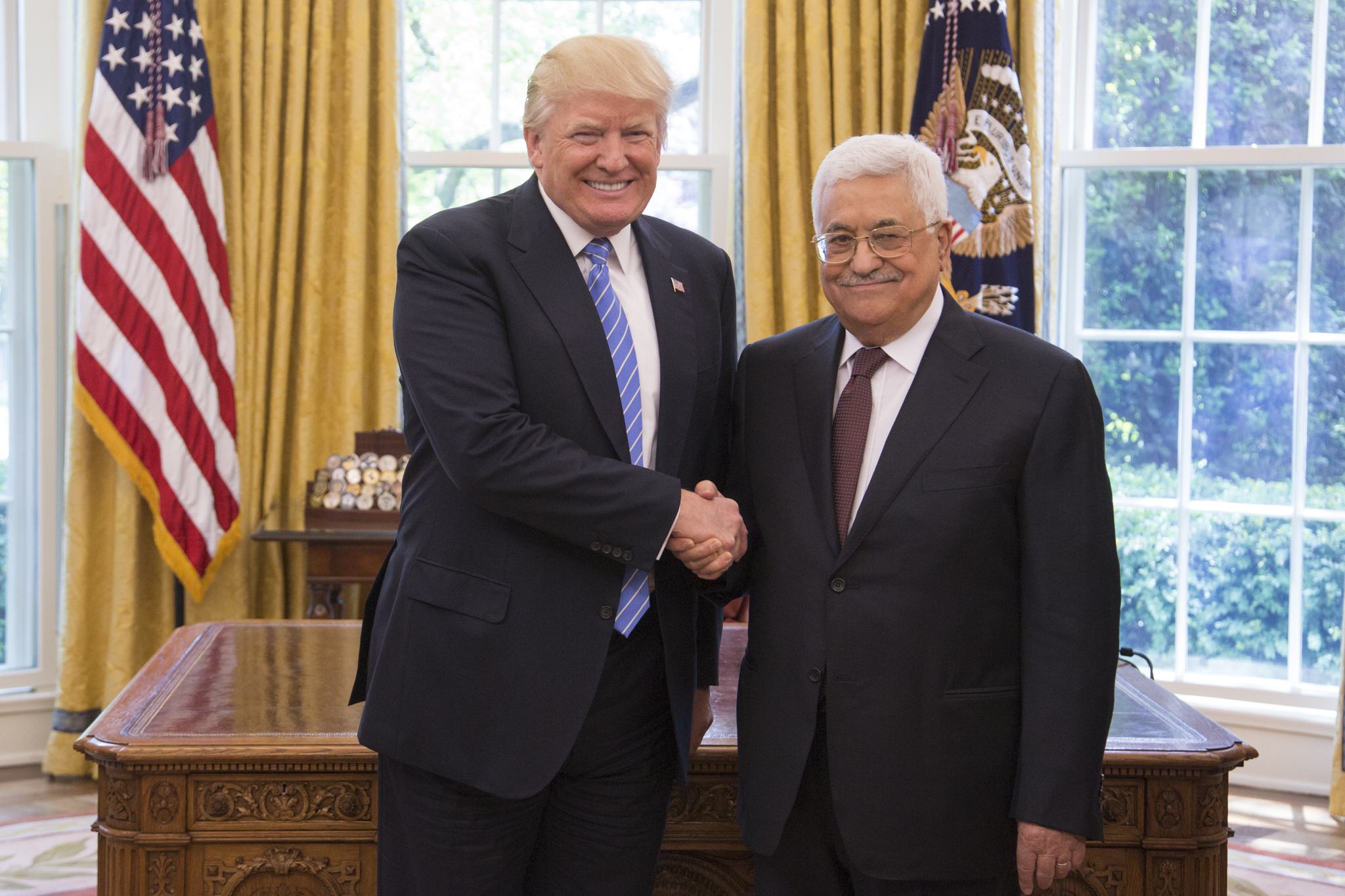 President Donald Trump and President of the Palestinian Authority Mahmoud Abbas shakes hands as they meet, Wednesday, May 3, 2017, in the Oval Office of the White House in Washington, D.C. (Official White House Photo by Shealah Craighead)